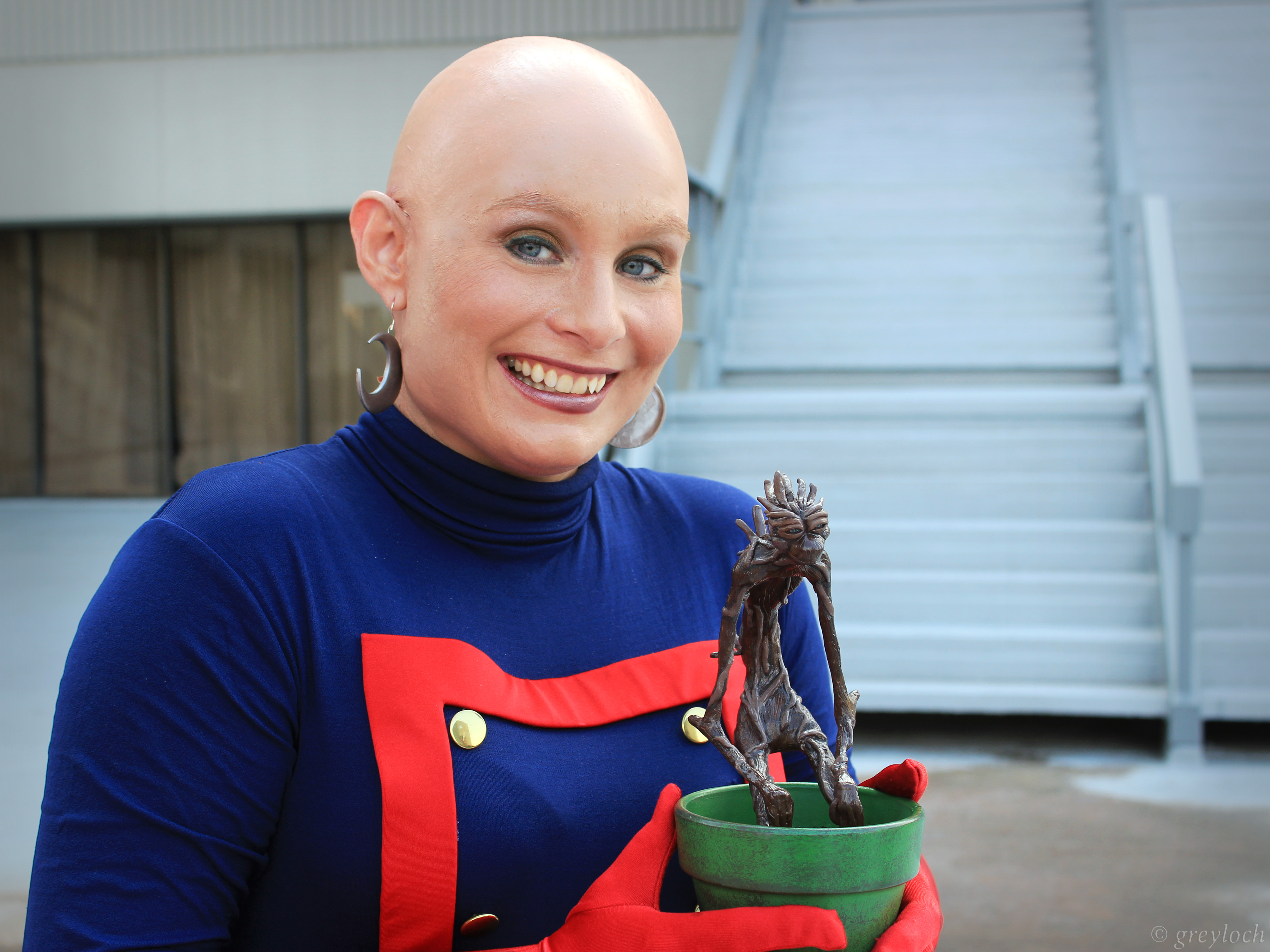 Cosplay of Moondragon, in her hands Groot. Both members of the Guardians of the Galaxy, Marvel Comics characters. Picture taken at Dragon Con 2013.